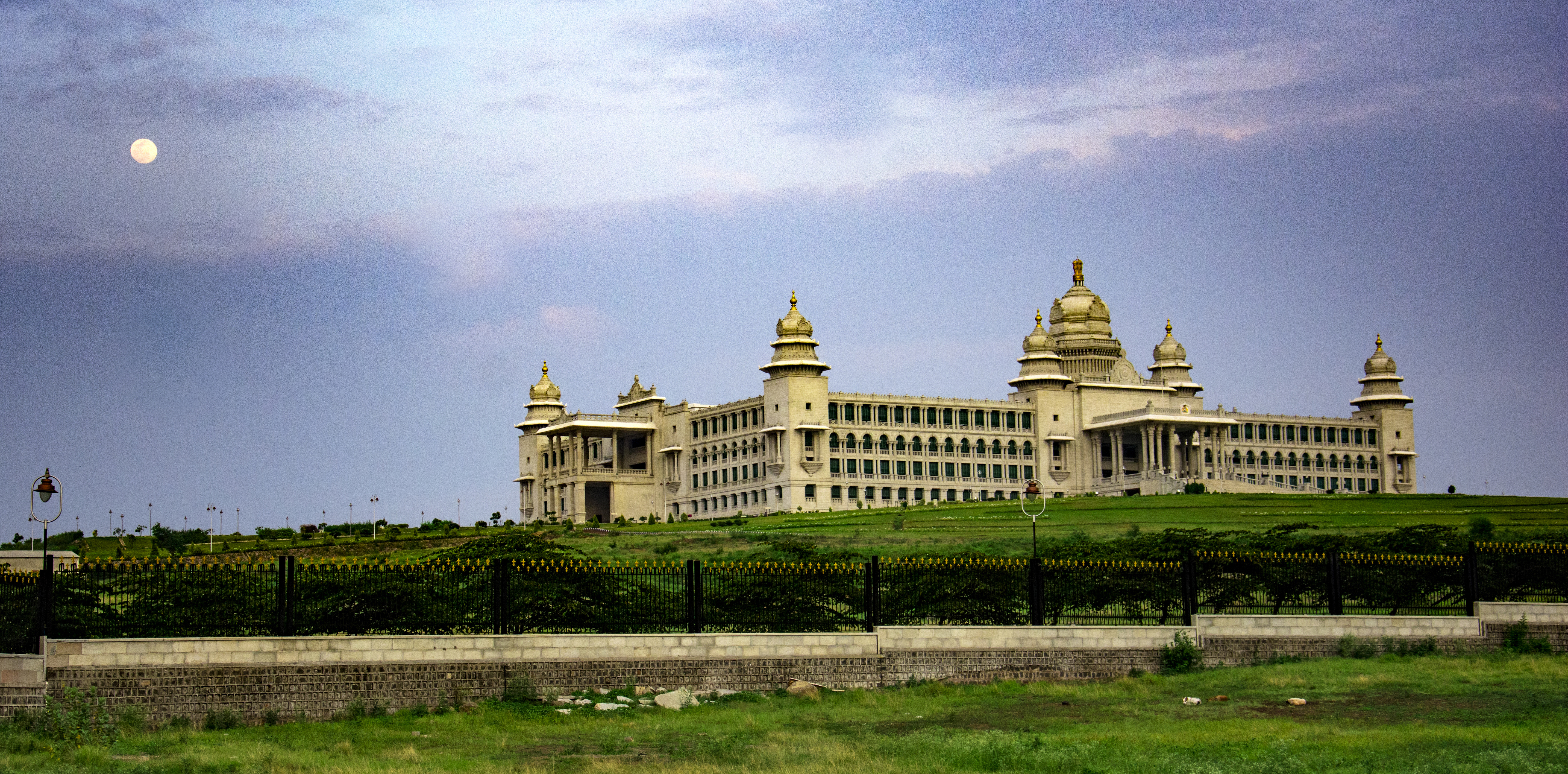 This is the image of Suvarna Soudha, Belgaum which is a replica of Vidhana Soudha Bangalore